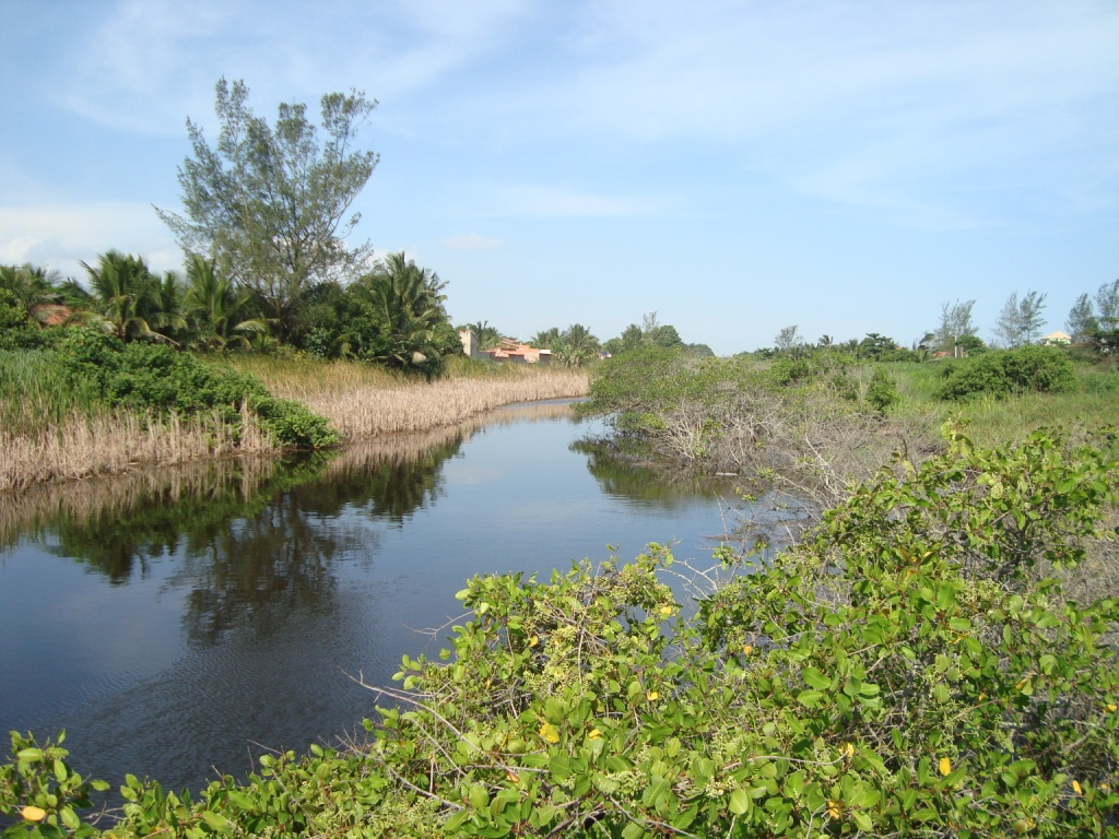 Channel at Itaipuaçu, Maricá, Rio de Janeiro, Brazil.